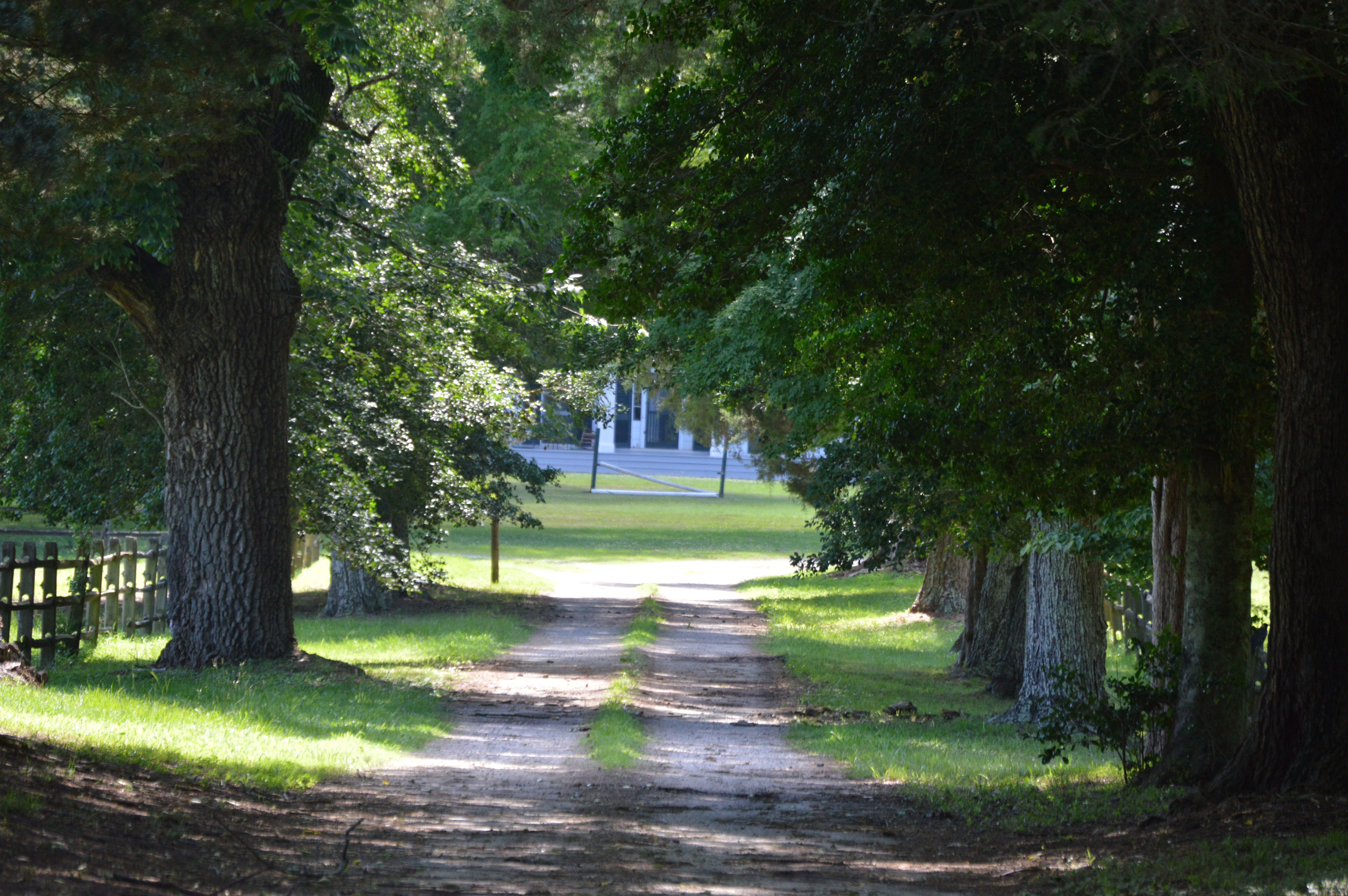 Driveway view of the Brick House, located on Broadnax Road just west of White Plains in Brunswick County, Virginia, United States. Built in 1833, it is listed on the National Register of Historic Places.